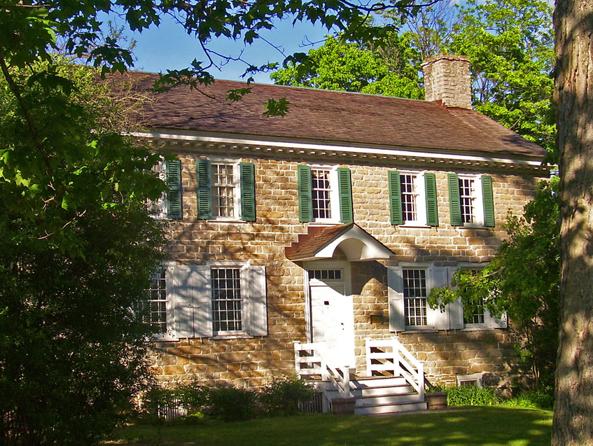 Photographed by Daniel Case 2007-05-21